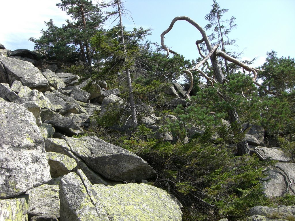 Granite blocks on the Haberstein in the Fichtelgebirge mountains, in Bavaria, Germany